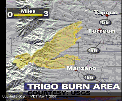 Small map showing the extent of burn of the Trigo Fire in Torrance County, New Mexico, USA, April-May 2008, and the threatened towns of Manzano, Torreon, and Tajique.